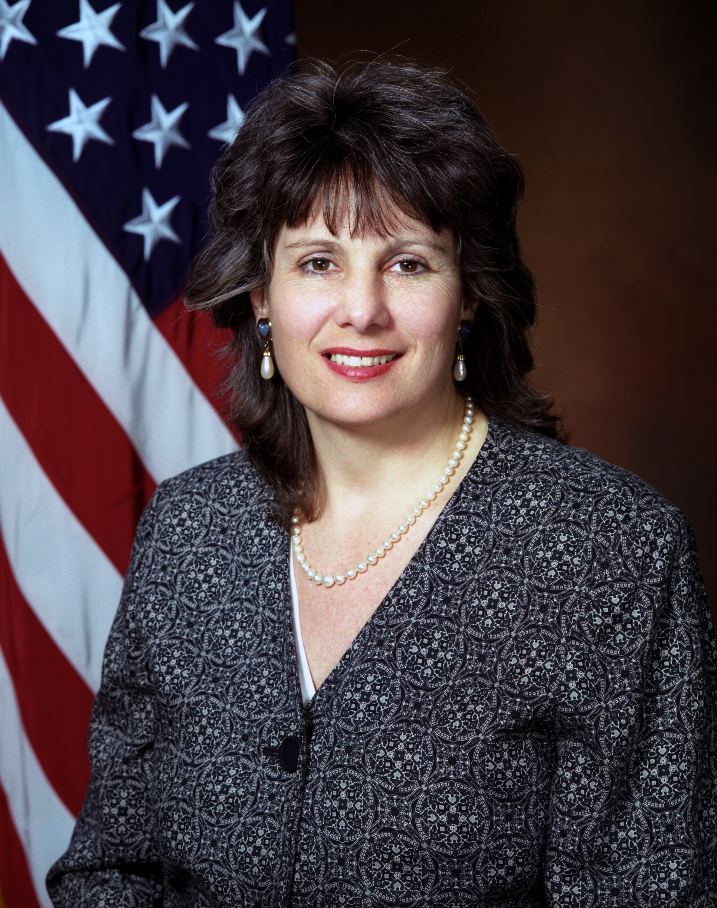 Gloria C Duffy at the Pentagon in official photo with US flag